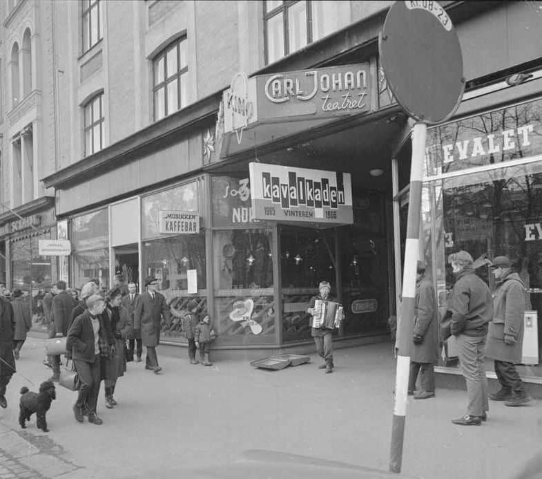 The movie theatre Carl Johan-teatret in downtown Oslo, Norway. Photo from 1966. The cinema closed in 1985.